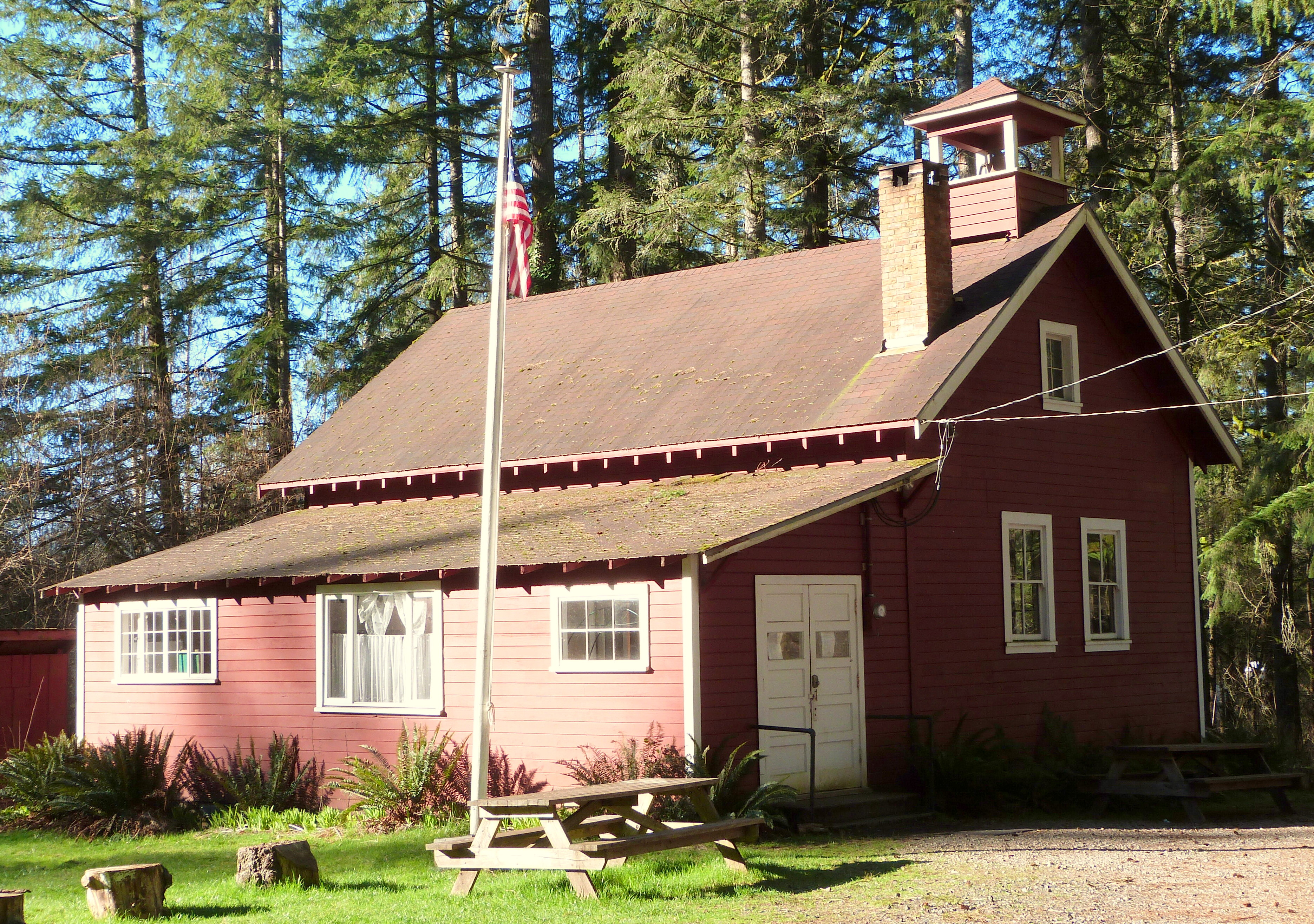 The historic Venersborg School (built 1912), located at the intersection of Northeast 209th Street and Northeast 242nd Avenue near Battle Ground, Washington, United States, is listed on the US National Register of Historic Places. As of the photo date, it is in use as a community center.